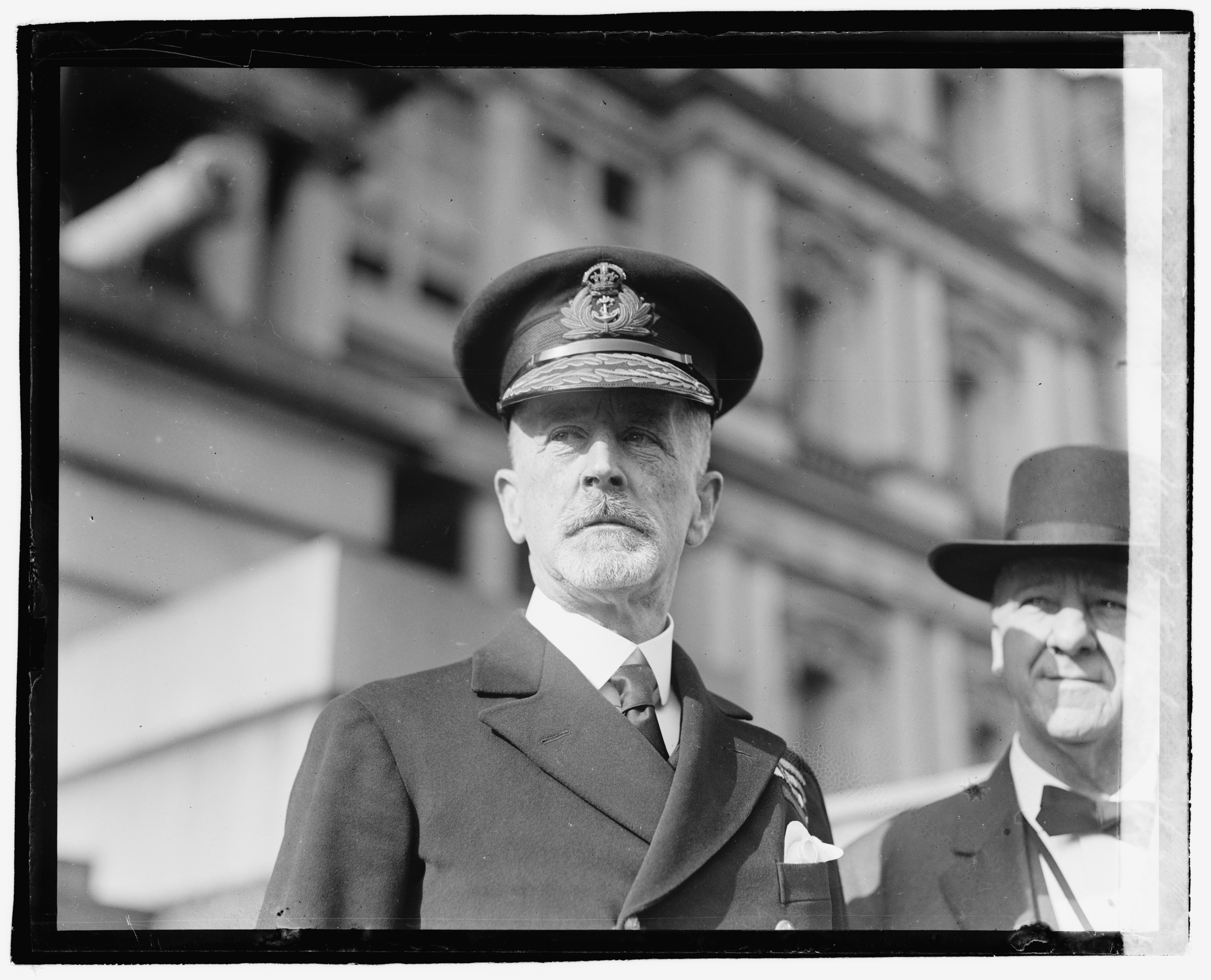 Title: Vice Adm'l. Sir Wm. Pakenham, 11/23/20 Abstract/medium: 1 negative : glass ; 4 x 5 in. or smaller